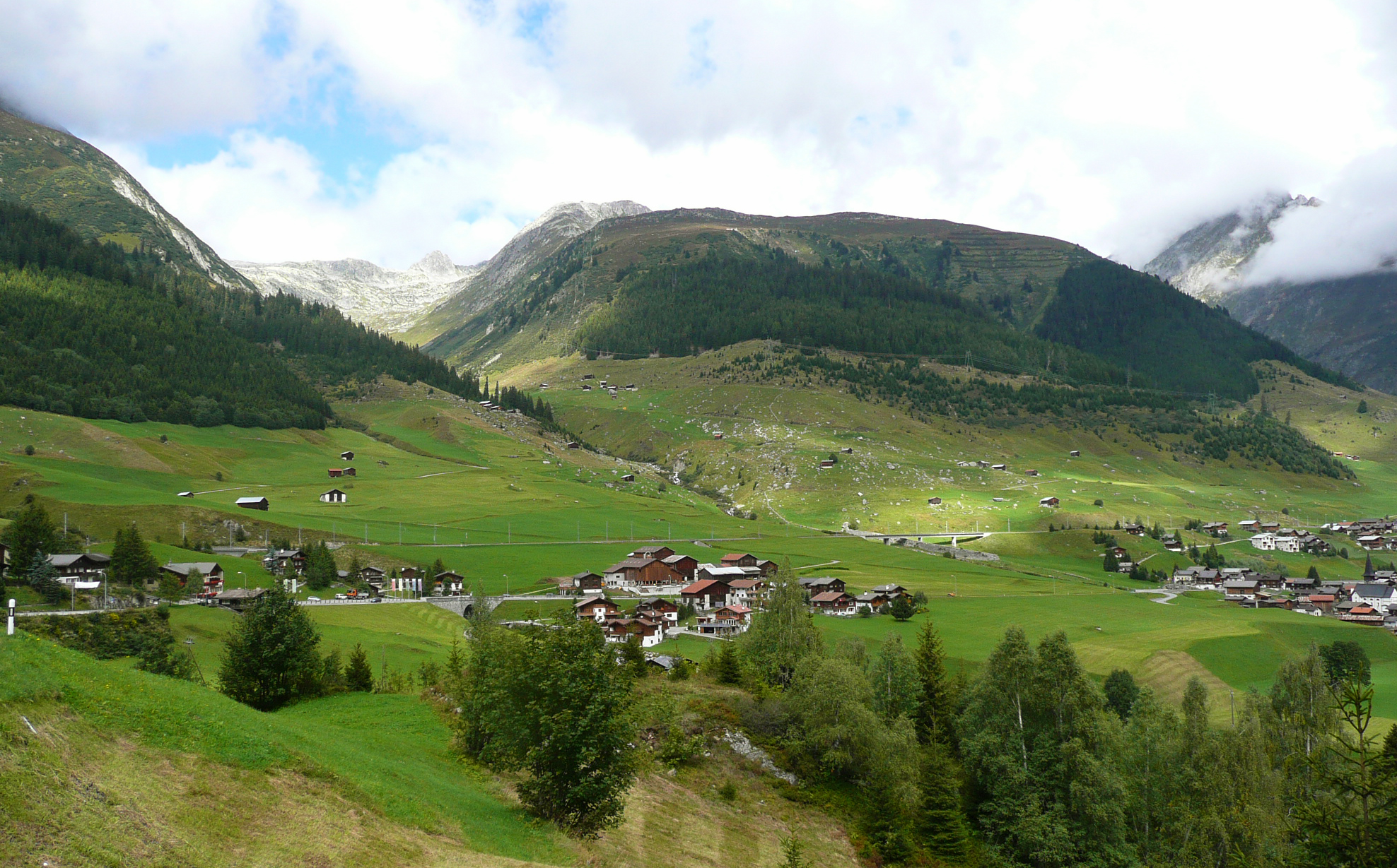 Sedrun landscape, municipality of Tujetsch, Grisons, on the road to the Oberalppass in September 2010.